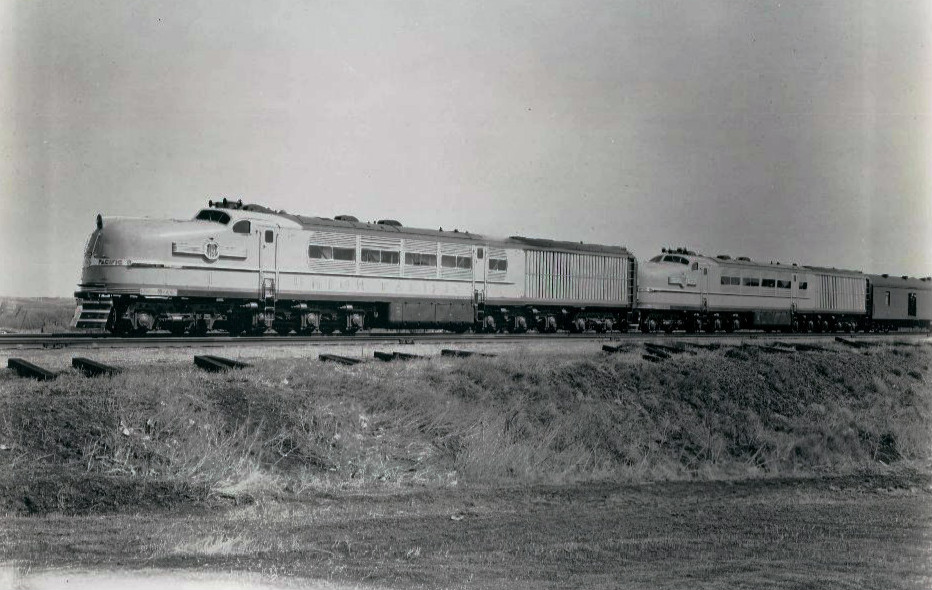 Publicity photo of Union Pacific steam driven electric turbine engines. From the description, these appear to be the 2 General Electric built engines the company ordered in 1938, received in 1939 and returned to GE as unsatisfactory in the year received. It is believed on receiving the engines back, GE dismantled them.